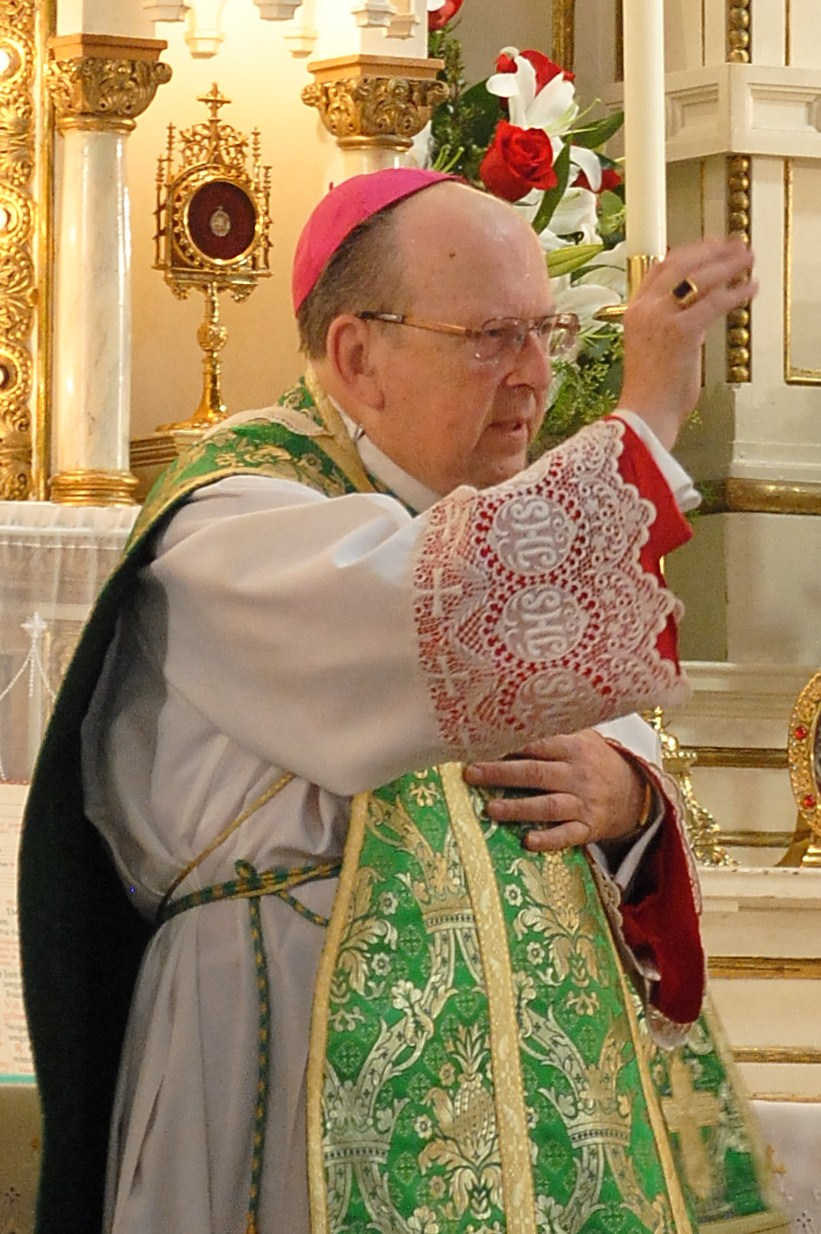 His Excellency, Bishop Francis Reiss, giving the blessing after pontifical low mass at St. Josaphat Church, Detroit, Michigan on August 12, 2012.